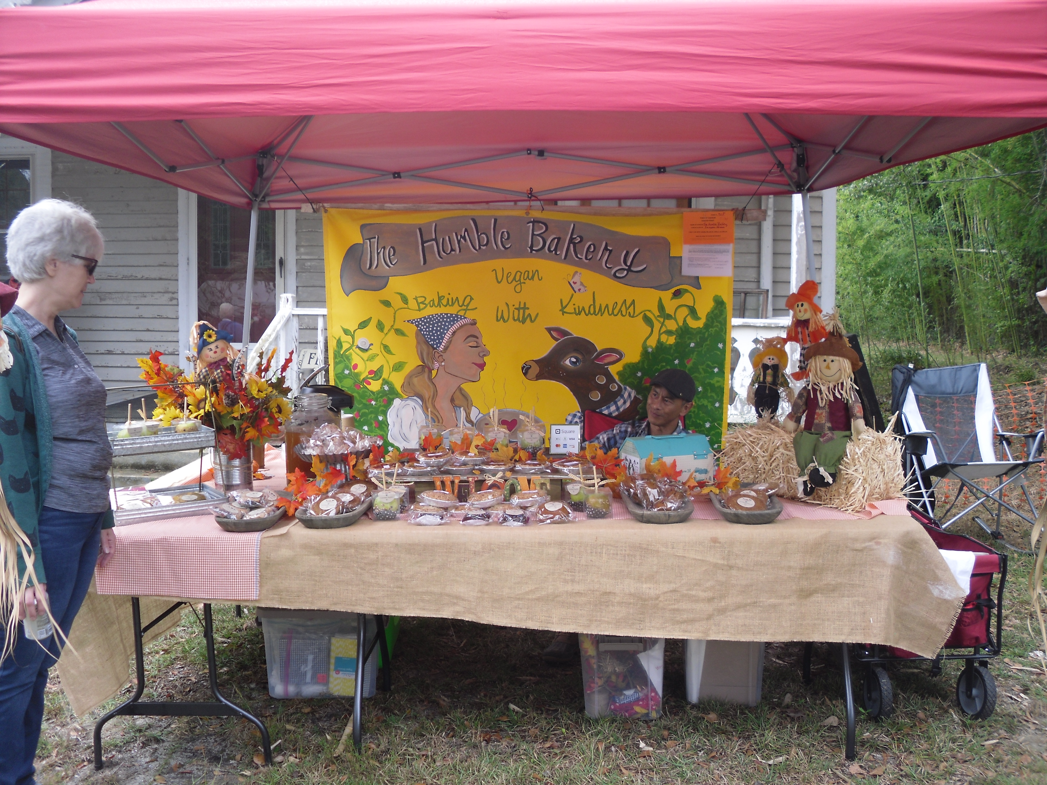 Vegan foods vendor, Cameron Antiques Fair, October 2019.